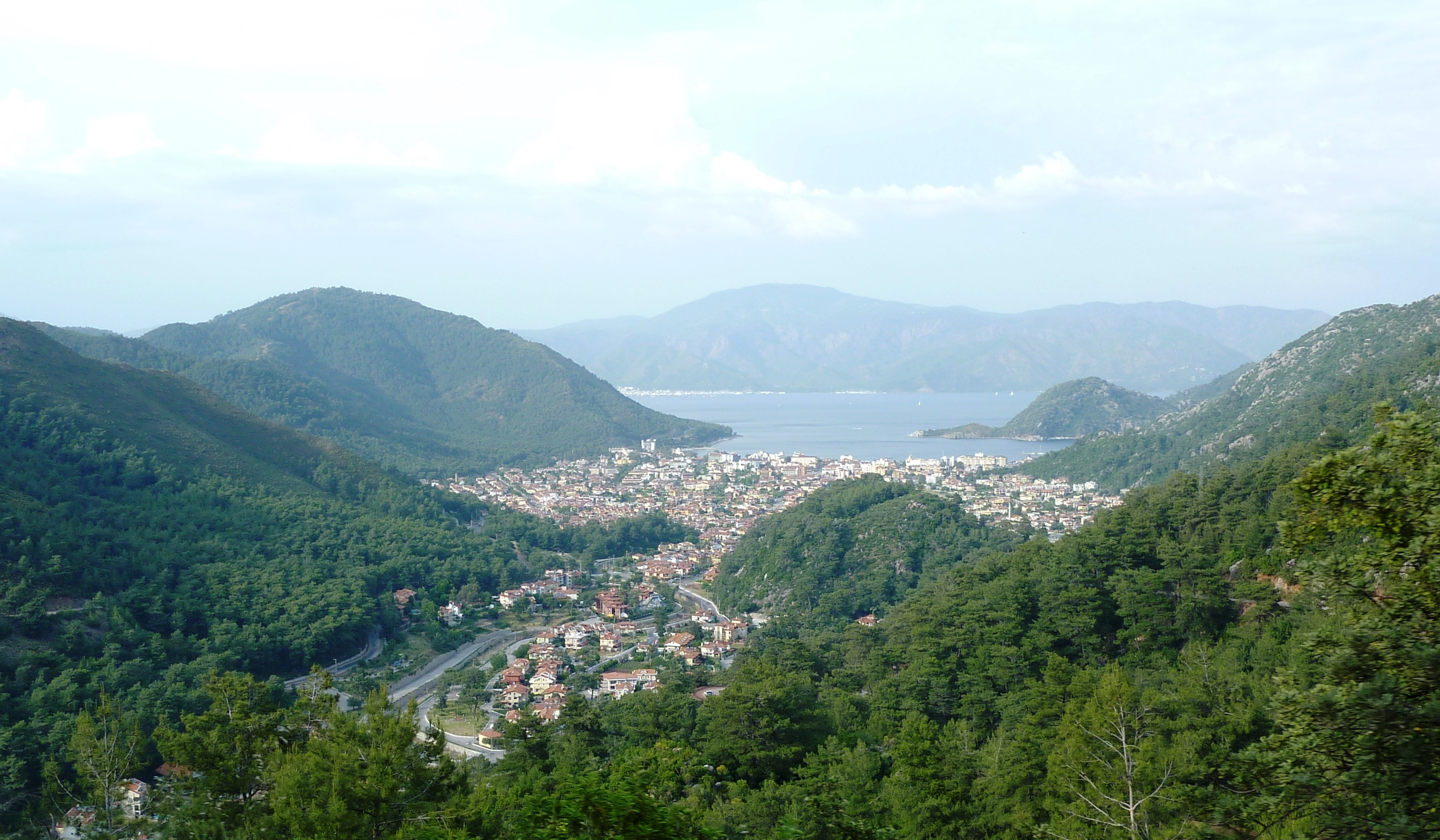 Panorama of İçmeler, the view from the road to Turunç.